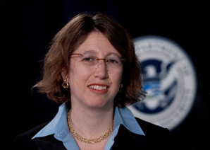 This is the official DHS portrait of Margo Schlanger, when she was DHS Officer for Civil Rights and Civil Liberties